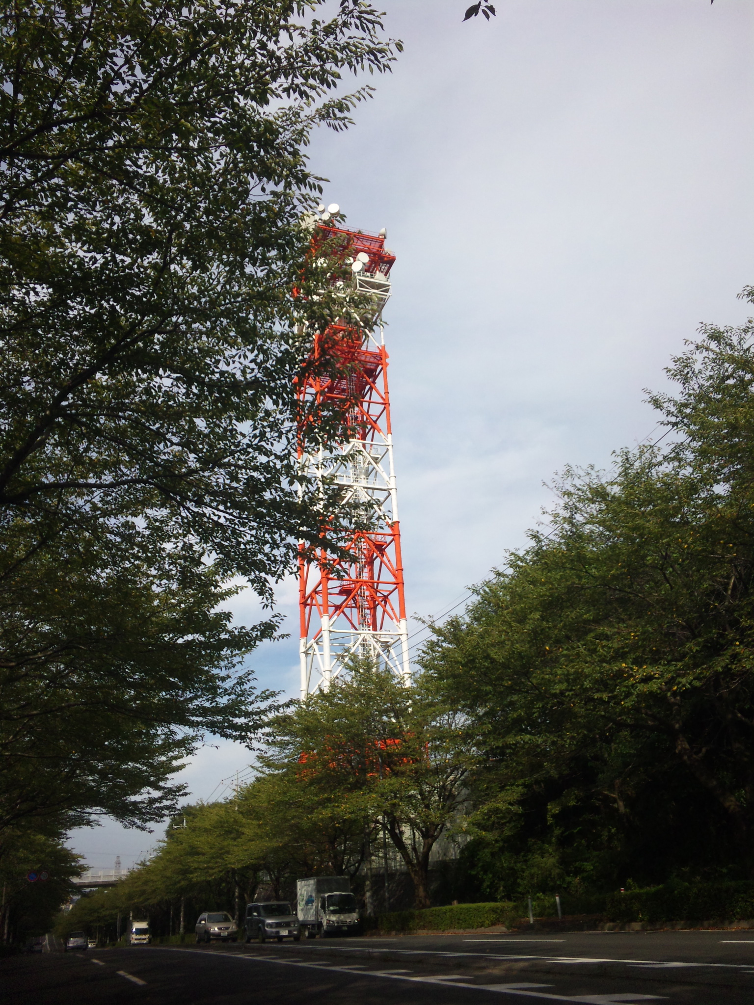 NTT Comunications Nagatuta